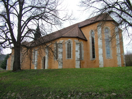 Church of Mátraverebély.